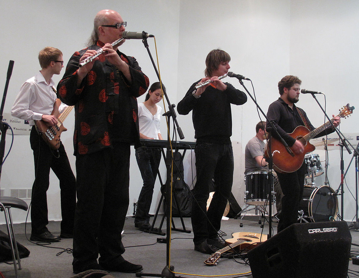 Rock-band "The Skazki" playing in Moscow art-gallery 'Na Solianke'